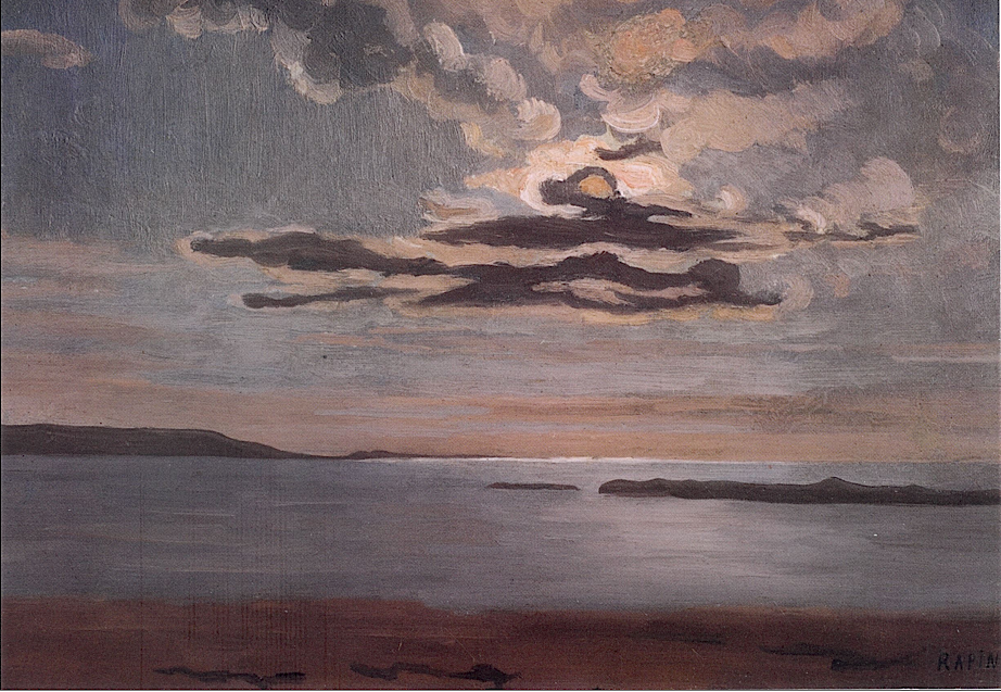 Paysage de mer au crépuscule, oil on canvas.